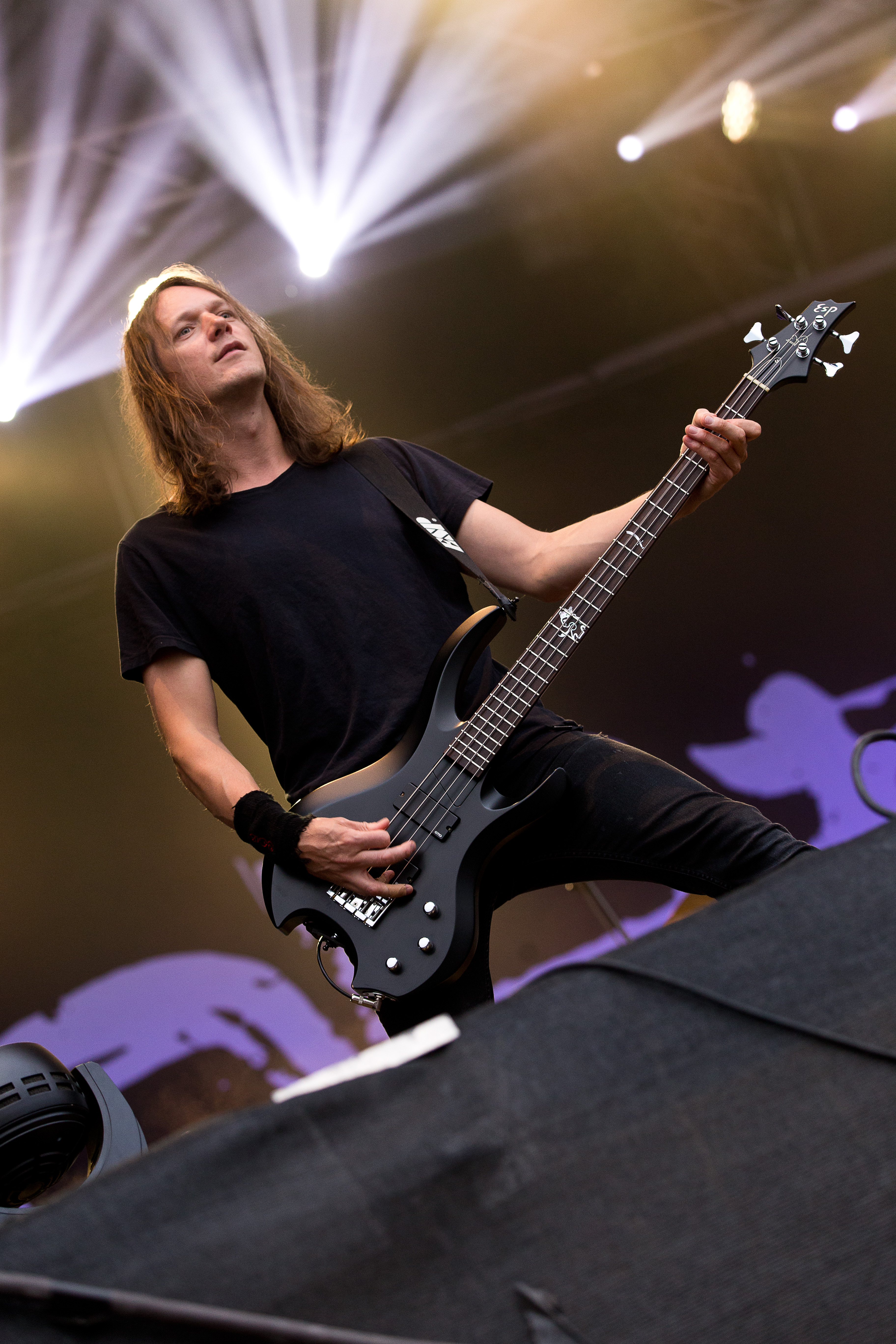 The Finnish melodic death metal band Children of Bodom at the Rockharz Open Air 2016 in Ballenstedt/Germany.